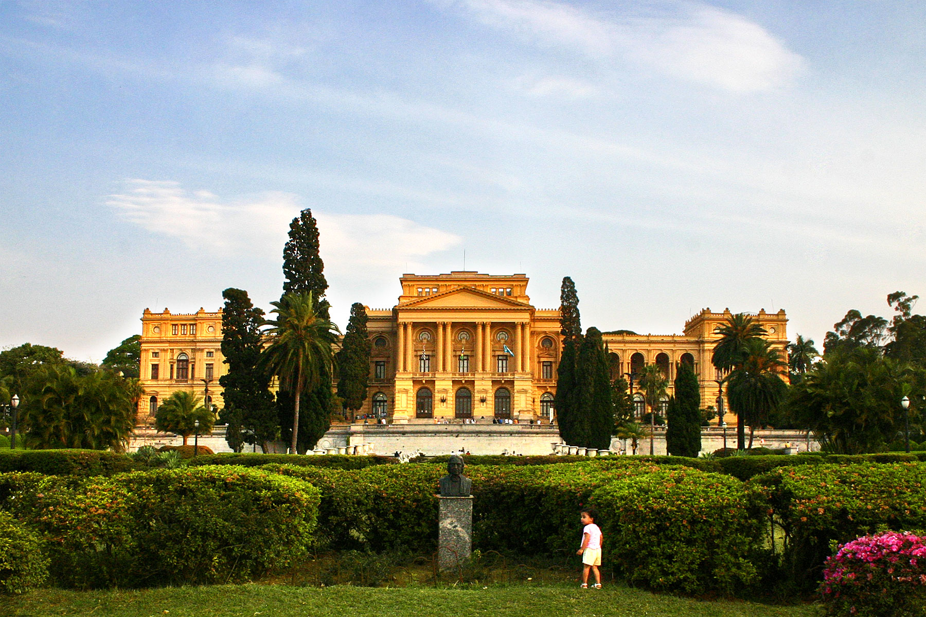 The Museu Paulista of the University of São Paulo